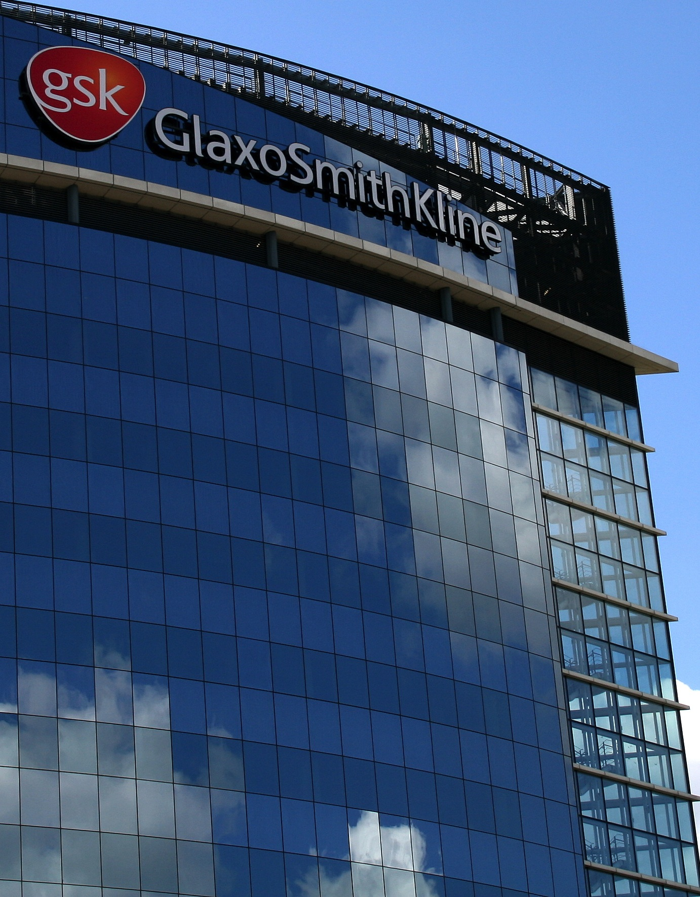 GlaxoSmithKline head office, London